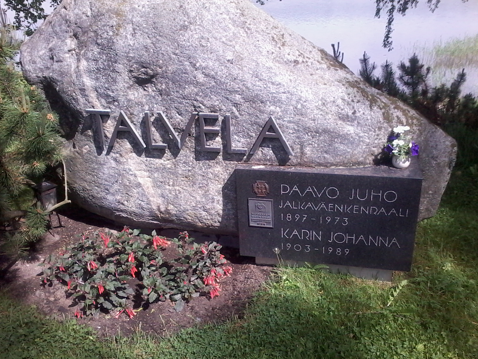 General of Infantry, Mannerheim Cross Knight